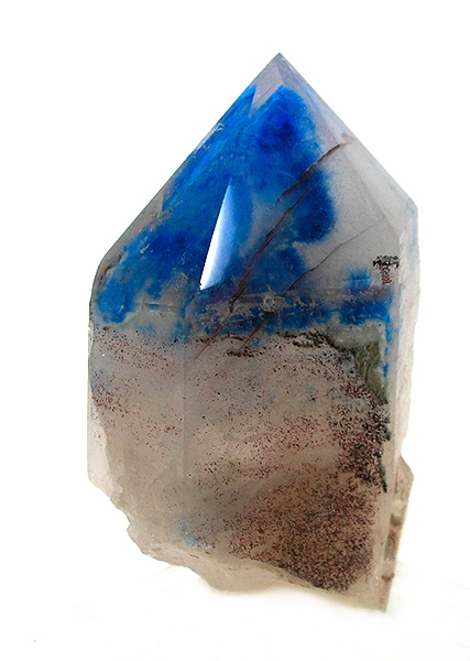 Papagoite, Quartz Locality: Messina mine, Messina District, Limpopo Province, South Africa (Locality at ) These specimens came out for some time and then, poof, no more! Today, they are almost impossible to get. Especially when this richly included. Like most such specimens, it has been polished to remove what is so often a crummy , powdery surface coating of secondary quartz to show off better the inclusions within. Because of the rarity, and beauty, i still consider it a crystal specimen rather than a lapidary object per se. The pronounced color, included in quartz, makes this material unique in the mineral world. Again, specimens this rich, literally, are at the top percentile of what came out. You almost never see them. Moreover, this one is of good size to pack a display whallop. 7 x 4.2 x 4.1 cm